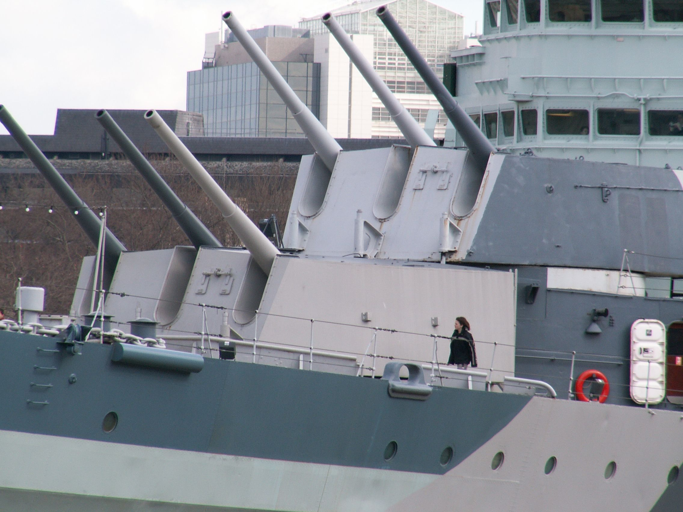 The two 6 inch turrets of HMS Belfast, London